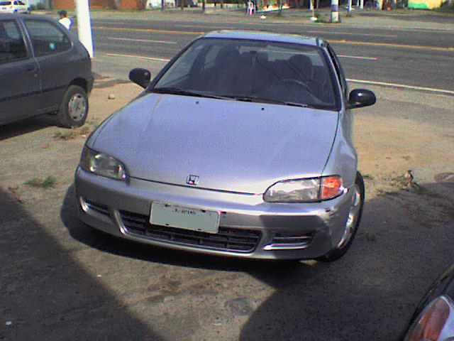 Honda Civic VTi 1994